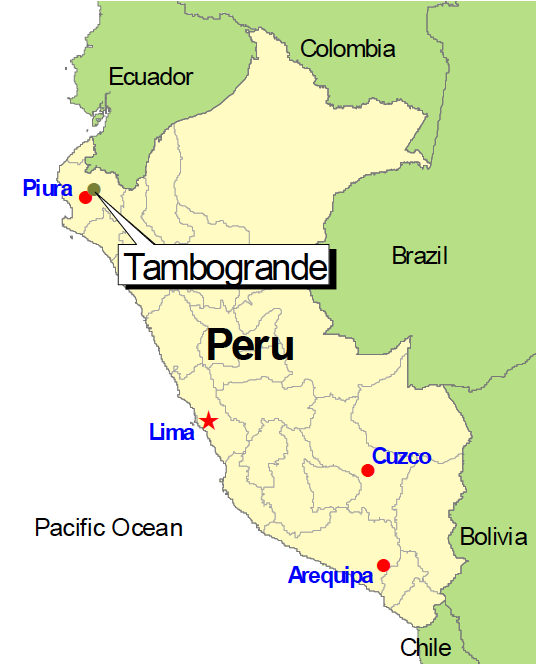 Tambogrande on a Map